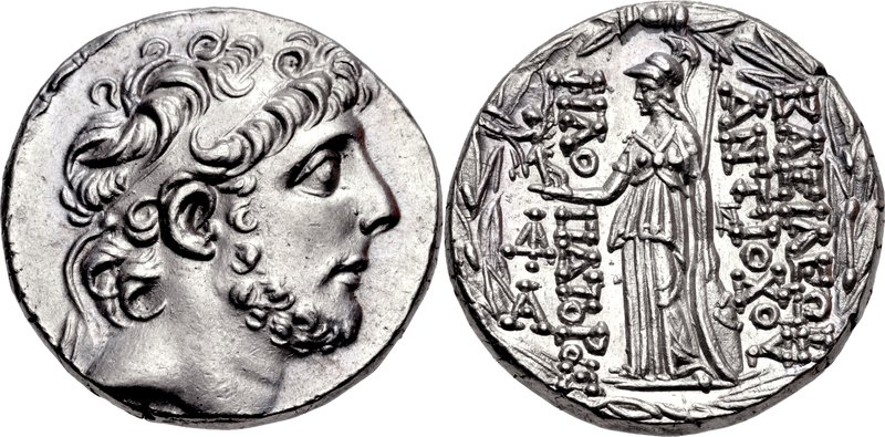 SELEUKID KINGS of SYRIA. Antiochos IX Eusebes Philopator (Kyzikenos). 114/3-95 BC. AR Tetradrachm (27mm, 16.39 g, 1h). Antioch mint (2nd reign). Struck 110/9 BC. Diademed head right / Athena Nikephoros standing left, resting hand on shield, and propping spear on her arm; to outer left, monogram above monogram; N to inner right; all within wreath. SC 2366.1l; CSE 2, 767 (same obv. die). Superb EF.